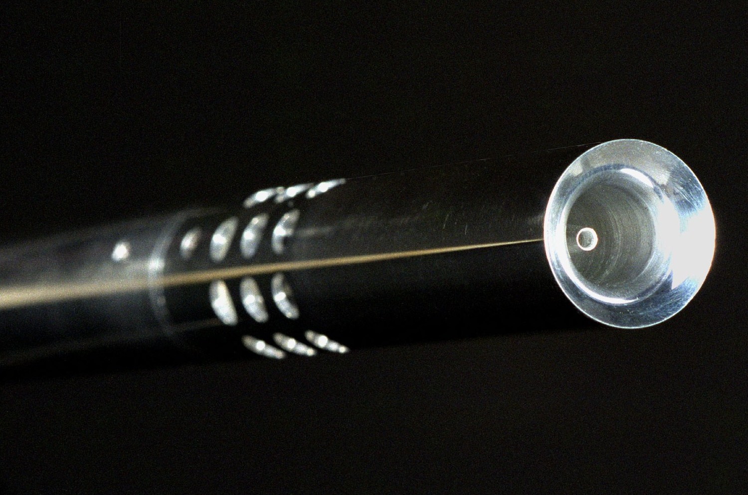 A close-up photograph of the Kiel air data probe on the noseboom on the X-31 aircraft shows the orifices used to collect air pressure measurements. Icing in the unheated Kiel probe on the first X-31 (Bu. No. 164584) caused that aircraft to crash. The aircraft obtained data that may apply to the design and development of highly-maneuverable aircraft of the future. Each has a three-axis thrust-vectoring system, coupled with advanced flight controls, to allow it to maneuver tightly at very high angles of attack.